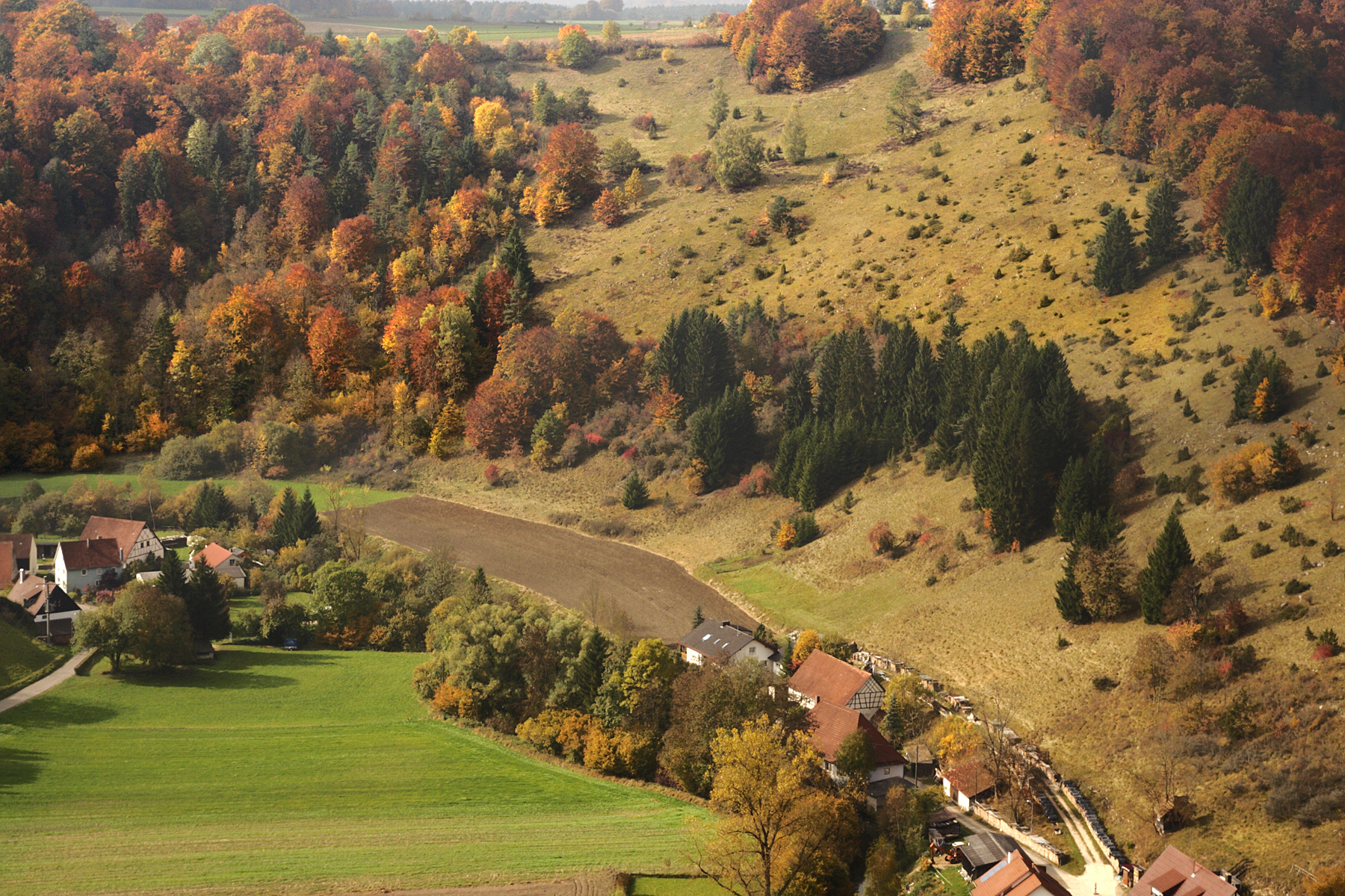 Calcareous grassland on the cut bank of river Große Lauter. View from the ruin “Hoch-Gundelfingen” high above on a misty autumn afternoon. The slope of the cut bank is subject to strong ecological succession, due to not enough sheep grazing. The typical beautiful juniper heaths of the Swabian Alb will slowly fade.